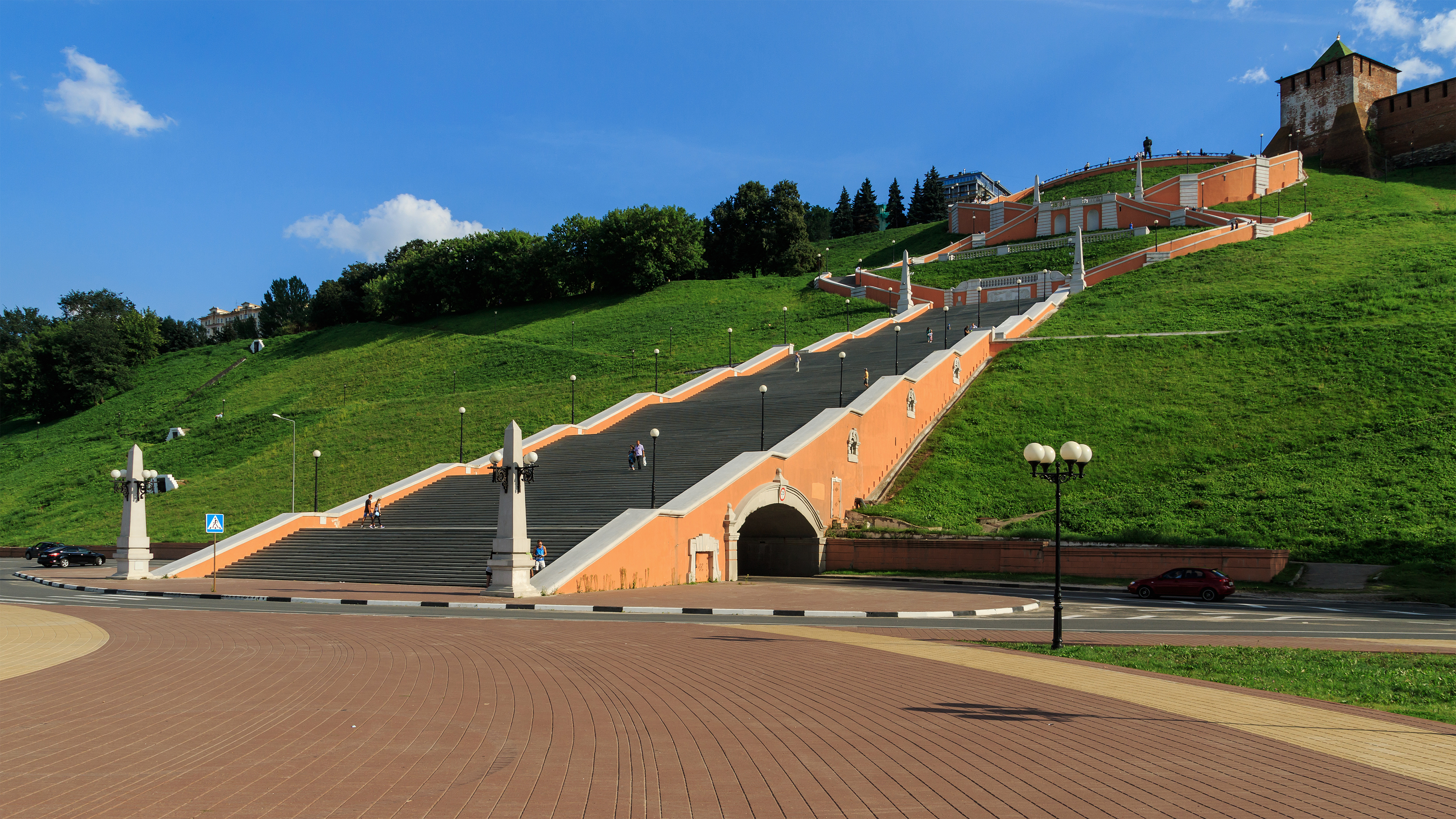 Chkalov Stair cascade in Nizhny Novgorod, Russia